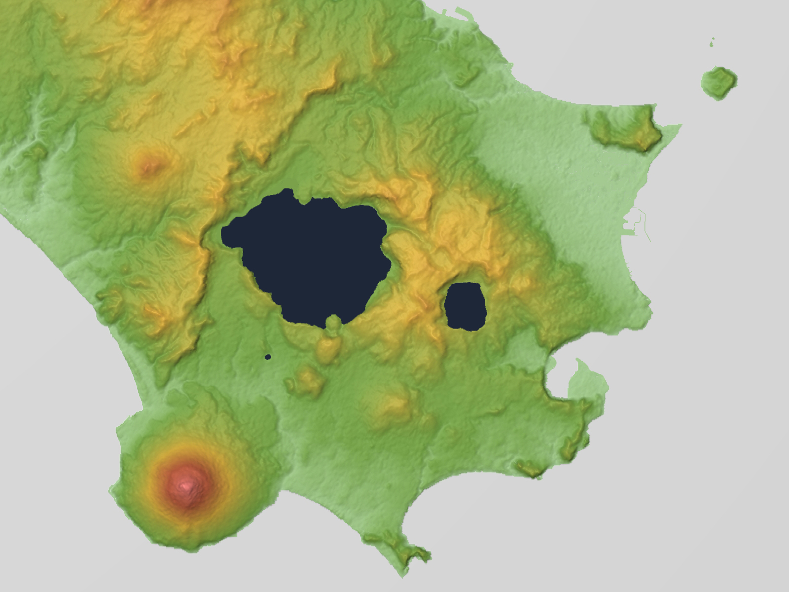 Ibusuki Volcano Group in Kagoshima Prefecture, Kyushu, Japan.